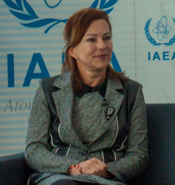 To commemorate International Women’s Day, IAEA Deputy Director General Janice Dunn Lee (far left) hosts a roundtable to discuss women in international careers with a panel of Ambassadors, (from left to right): Ambassador Maria Oyeyinka Laose of Nigeria; Ambassador Olga Algayerová of Slovakia; H.R.H. Princess Bajrakitiyabha Mahidol, Ambassador of Thailand; Ambassador Susan Jane Le Jeune D'Allegeershecque of the United Kingdom, and Ambassador Ana Teresa Dengo of Costa Rica. IAEA Headquarters, Vienna, Austria, 5 March 2013.